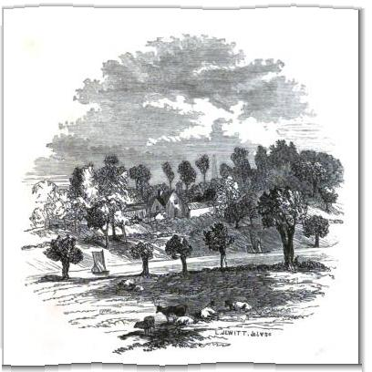 A cliff near Weston-on-Trent in Derbyshire.